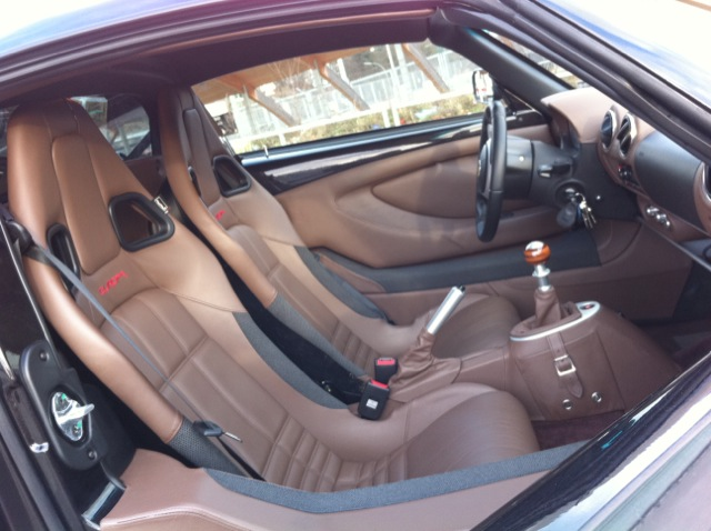 Lotus Europa SE interior